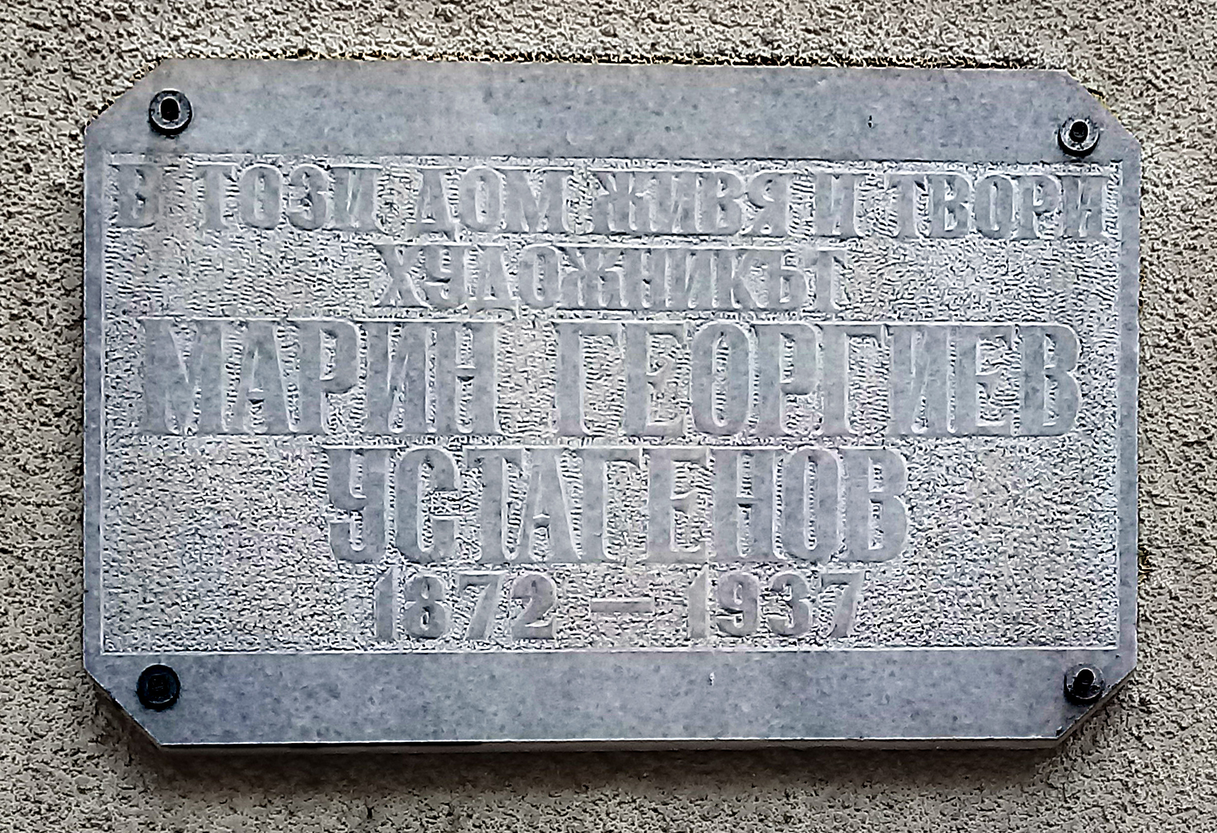 Marin Ustagenov memorial plaque, 61 Oborishte Str., Sofia